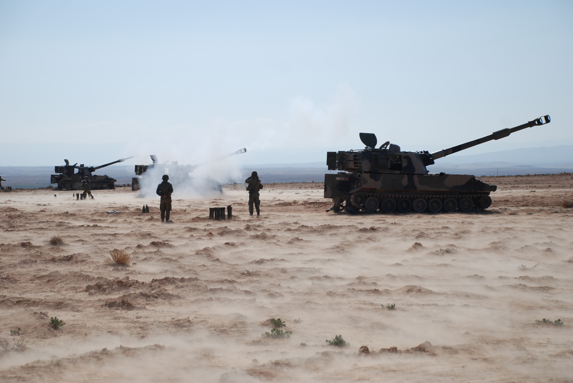 M109A5 Howitzer Crews from the Moroccan 15th Royal Artillery Group demonstrate firing procedures and capabilities during an artillery tactics military to military event observed by the US military. Live fire exercises included forward observer procedures, fire direction center procedures and gun line crew drills. (Photo by Maj. Tyrone Martin)